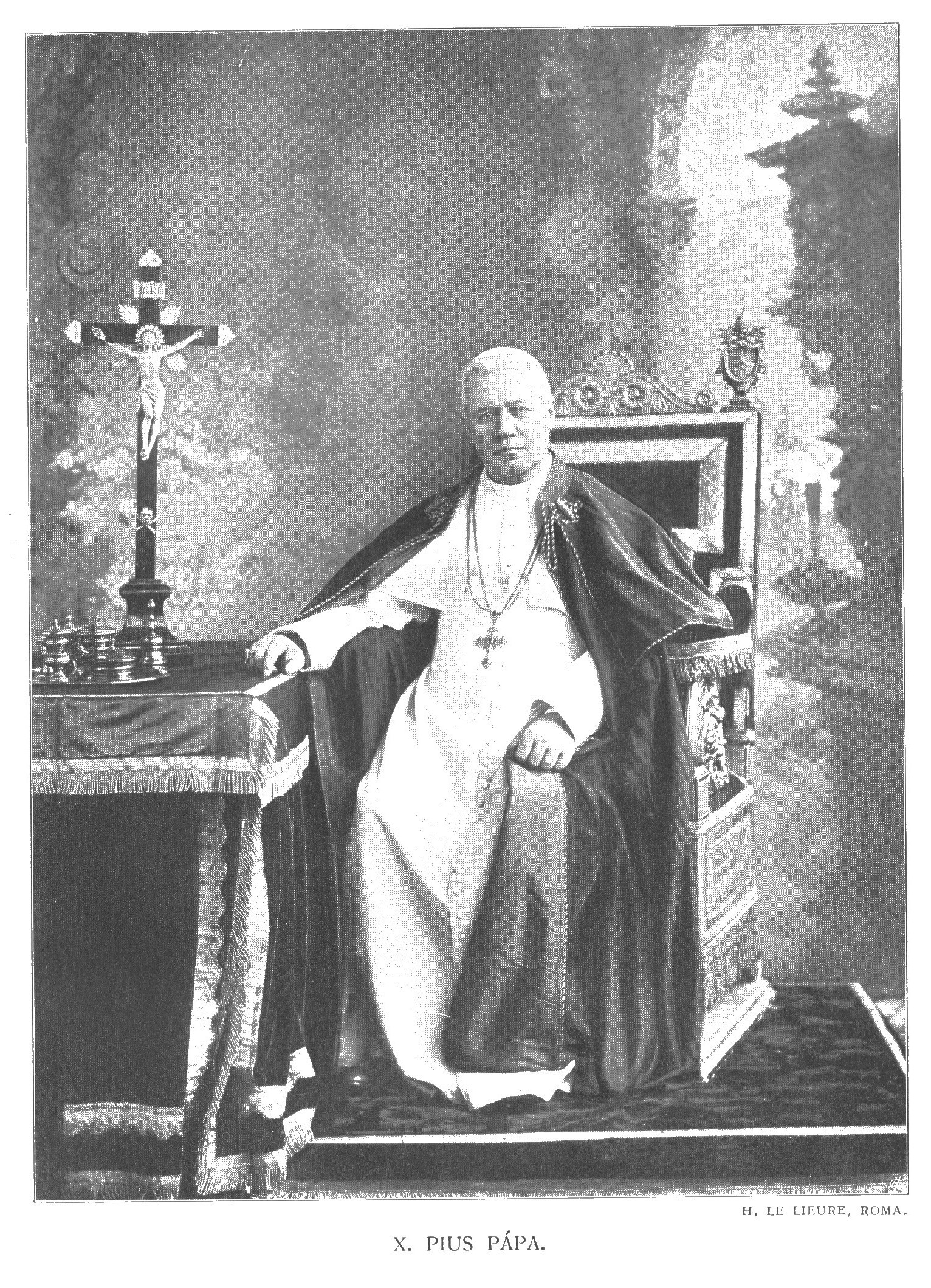 Pope Pius X (1835-1914) seating by table with Crucifix; photographer Henri Le Lieure